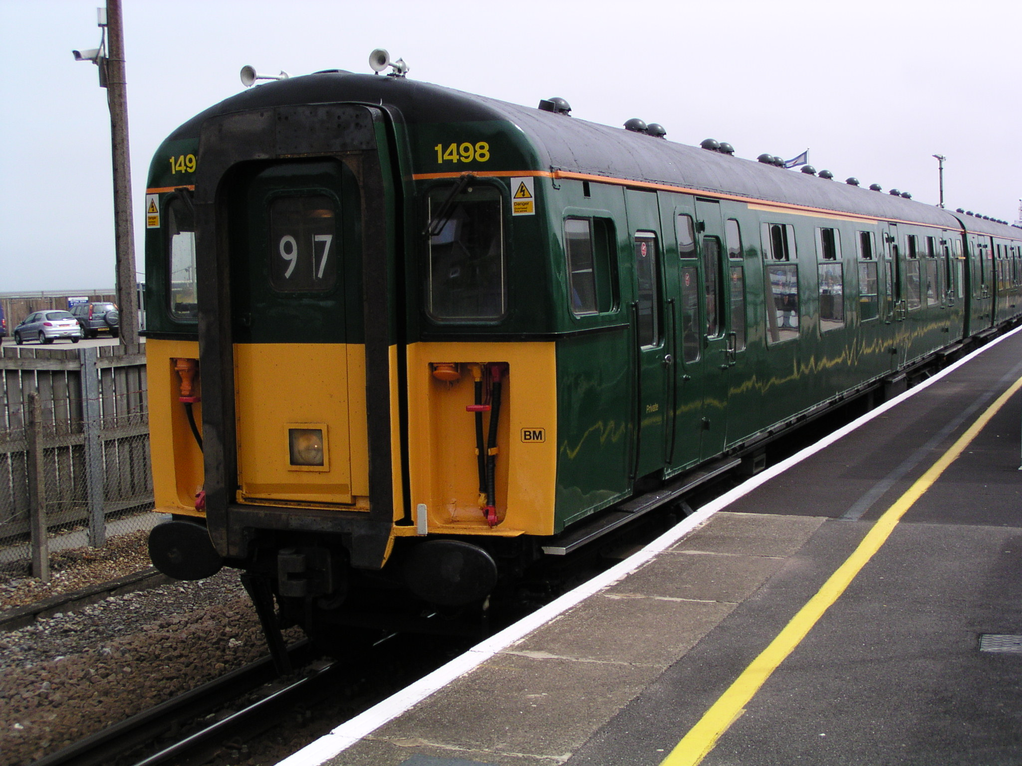 This image was copied from (Image:1498 at Lymington Pier.JPG). The original description was: BR Class 421/7 no. 1498 "Farringford" at Lymington Pier on 26 May 2005. This unit has been restored to 1960s-era British Railways green livery for use on the Lymington Branch Line.